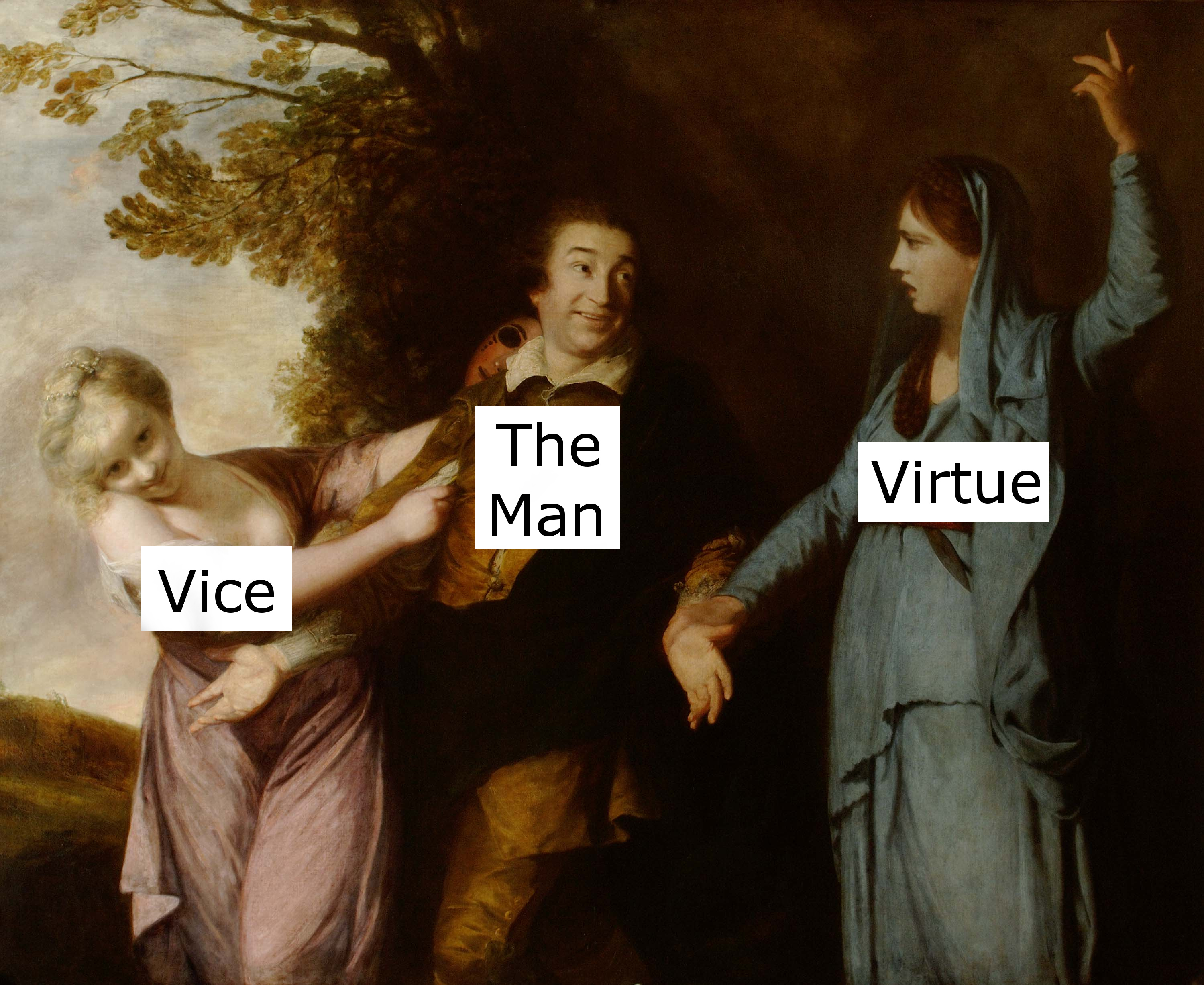 The painting David Garrick Between Tragedy, with labels inspired by the print "L'Homme entre le Vice et la Vertu" and the Internet meme distracted boyfriend meme.